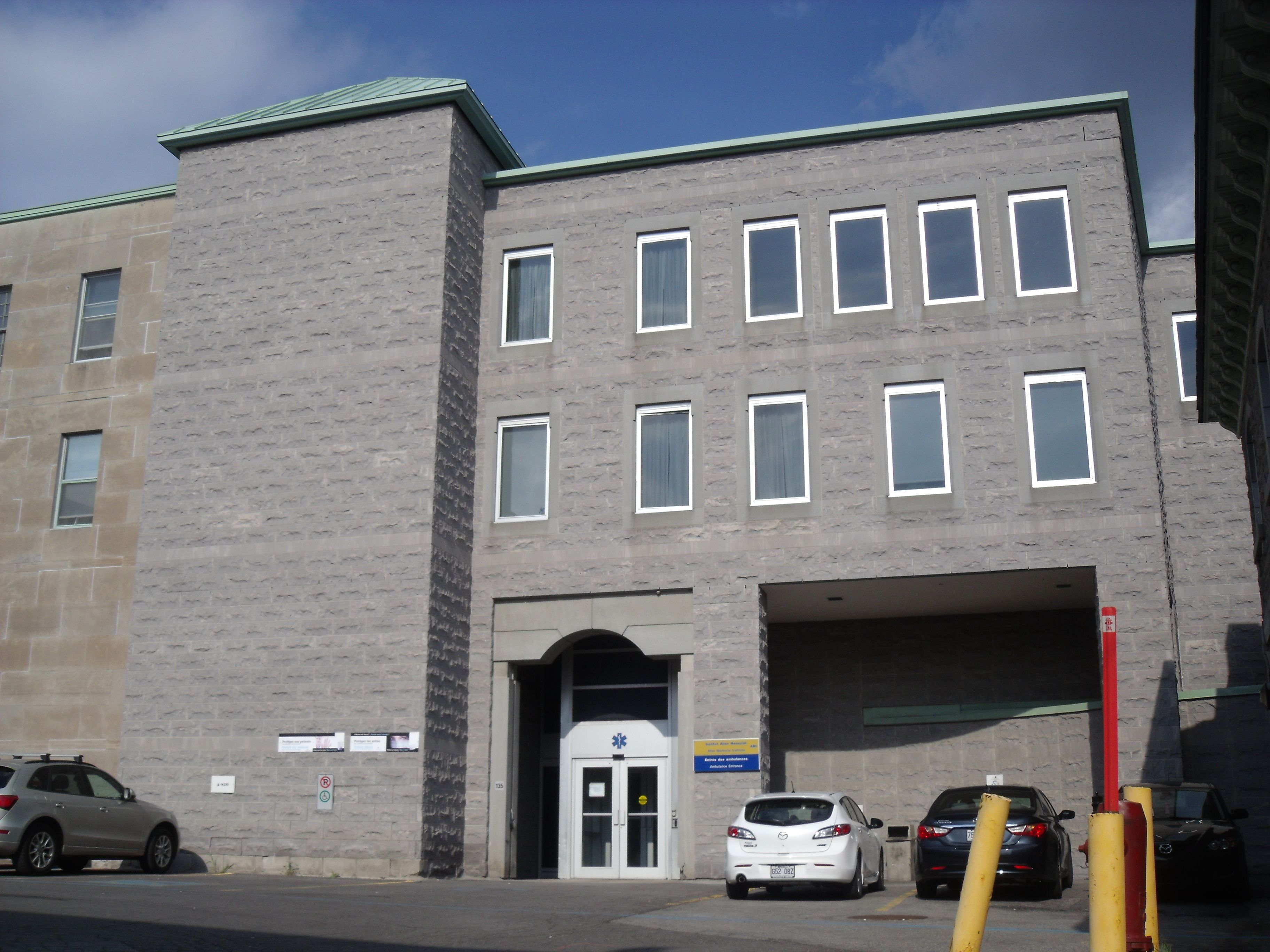 Ambulance Entrance, Allan Memorial Institute, 1025 Pine Avenue West, Montreal, Quebec, Canada.